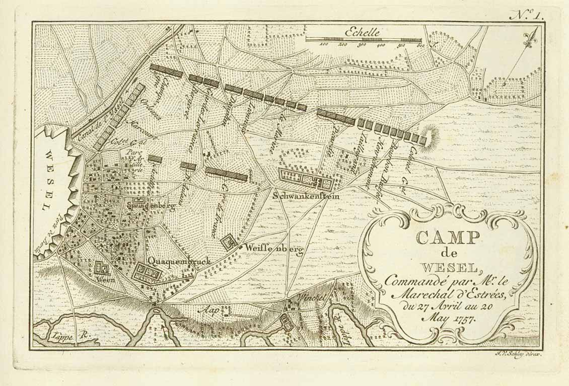 Jacobus van der Schley: Wesel 1757